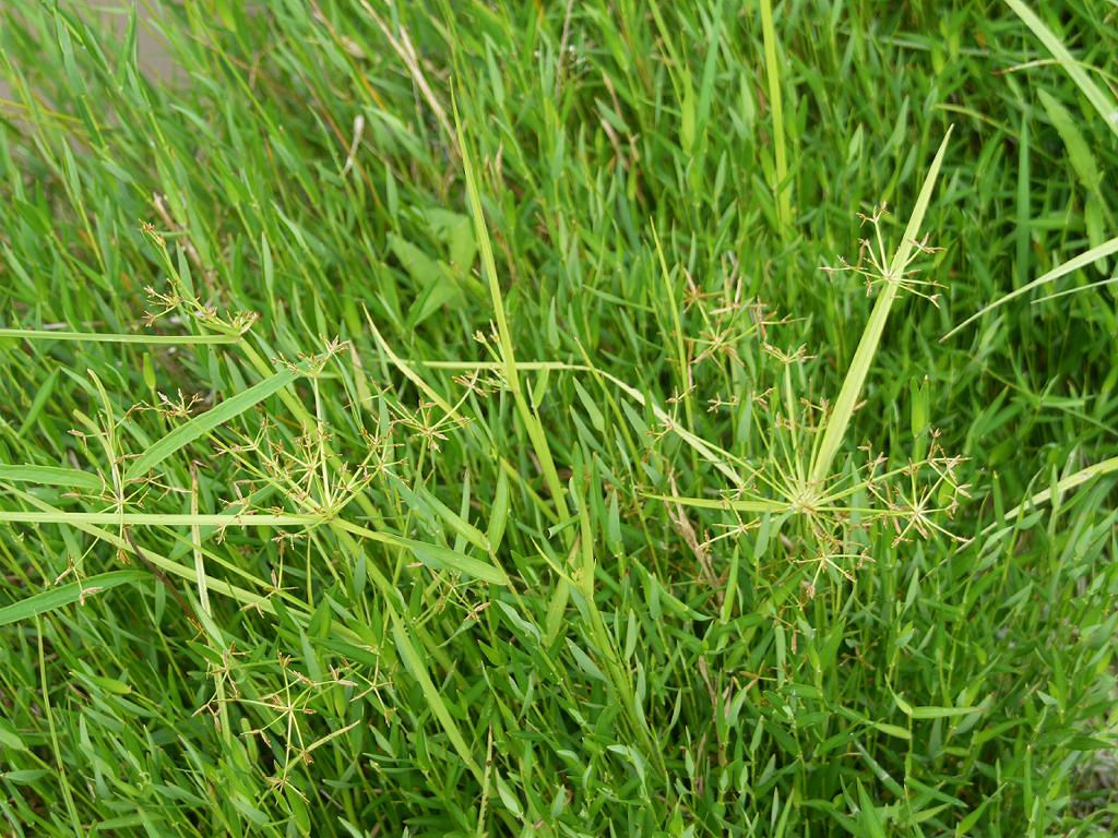 Cyperus haspan(Cyperaceae) Japanese name:Koazegayaturi：コアゼガヤツリ Date;2009,08.22;Tanabe City, Wakayama prefecture, Japan Author;Keisotyo